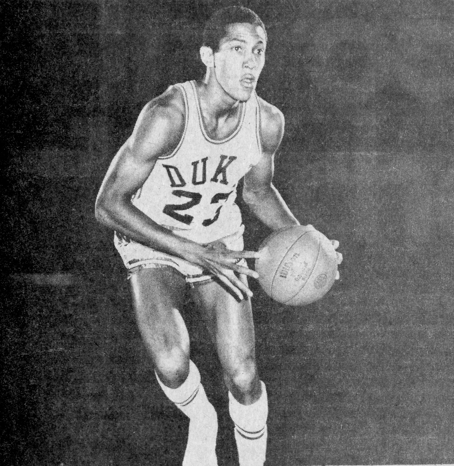 Scanned from the December 13, 1967 issue of the Duke Chronicle, the student newspaper of Duke University